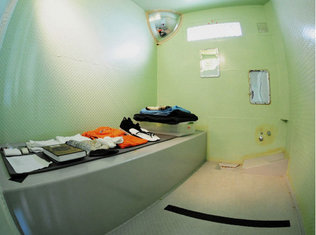 A cell in the formerly secret Camp Five Echo isolation camp.